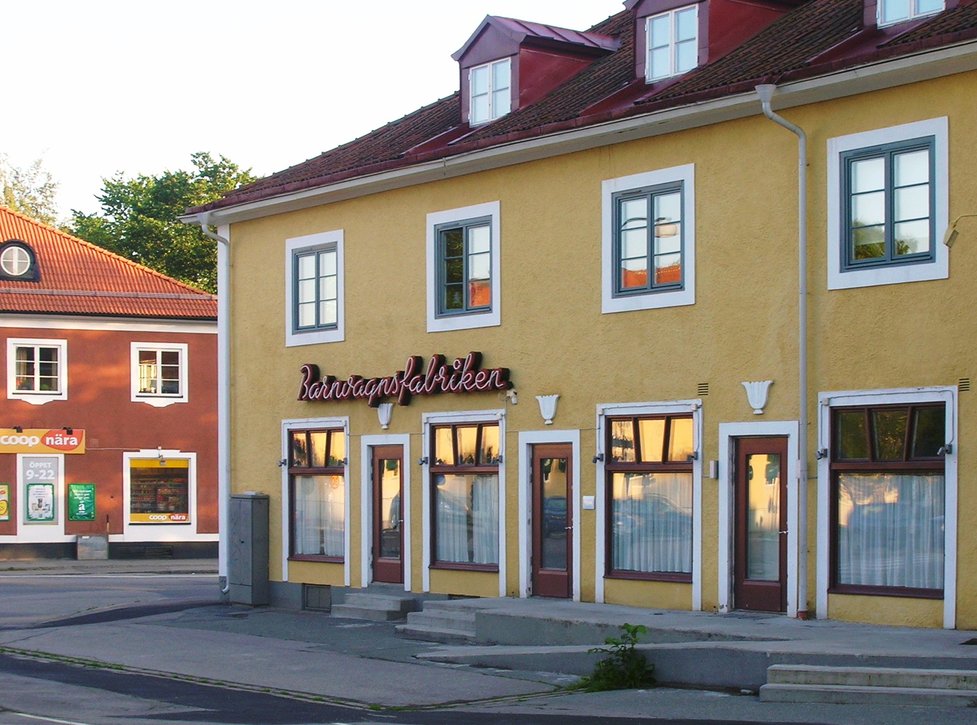 The crossing of Gamla Tyresövägen and Sockenvägen, Enskededalen, Stockholm